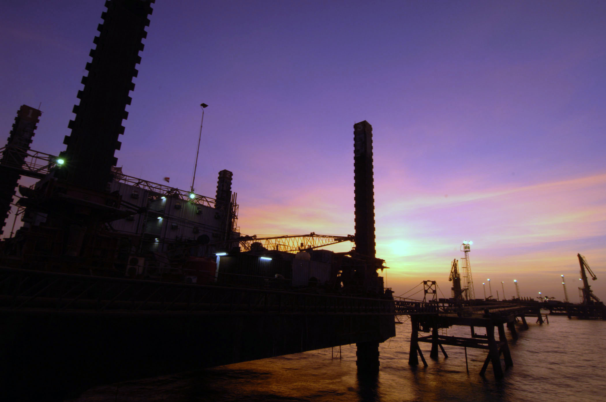 Persian Gulf (June 30, 2005) - As the sun-sets over the Khawr Al Amaya Oil Terminal (KAAOT), another day passes safely under the watchful eye of masters-at-arms assigned to Mobile Security Detachment Two Five (MSD-25). MSD-25 members are currently training the Iraqi military on proper watch standing and security procedures during their six-month deployment to the Iraqi oil terminals. Mobile Security Detachment Two Five is combining efforts with coalition forces under the flag of Commander Task Force Five Eight (CTF-58) in support of maritime security operations (MSO) by standing security watches on KAAOT and Al Basrah Oil Terminal (ABOT). U.S. Navy Photo by Photographer's Mate 1st Class Aaron Ansarov (RELEASED)